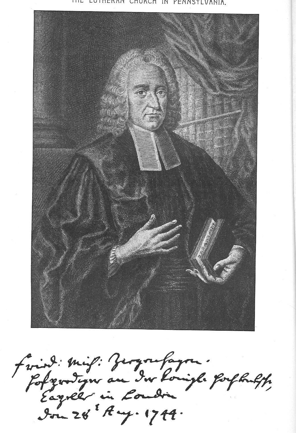 Portrait of the Revd. deFriedrich Michael Ziegenhagen (1694-1776), German Lutheran court chaplain in London